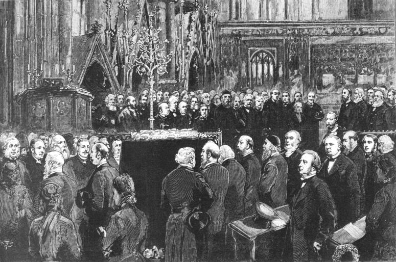 Funeral of the late Charles Robert Darwin in The Graphic (6 May 1882)